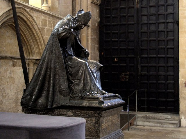 Interior of the Cathedral, Lincoln Edward King (1829-1910) Bishop of Lincoln, whose bronze memorial by William Blake Richmond is in the south transept of the Cathedral